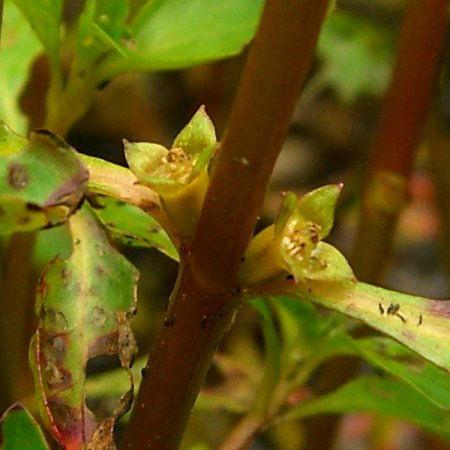 Scientific Name: Ludwigia palustris (L.) Ell. Common Name: Water Purslane Certainty: positive (notes) Location: Appalachians; Smokies; CabinCove Date: 20060616 Close-up of less-than-spectacular flowers.